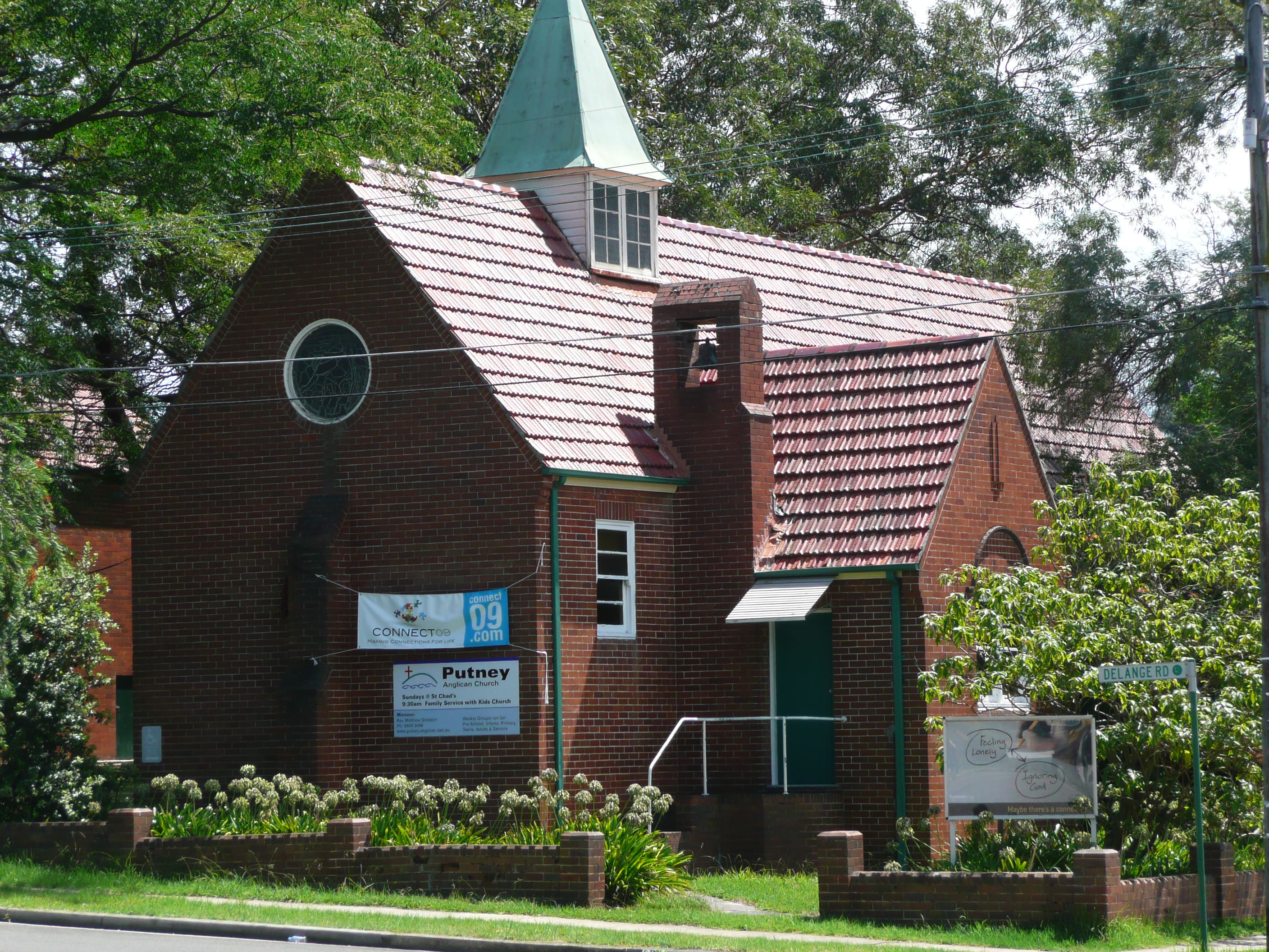 Anglican church, Putney, Sydney